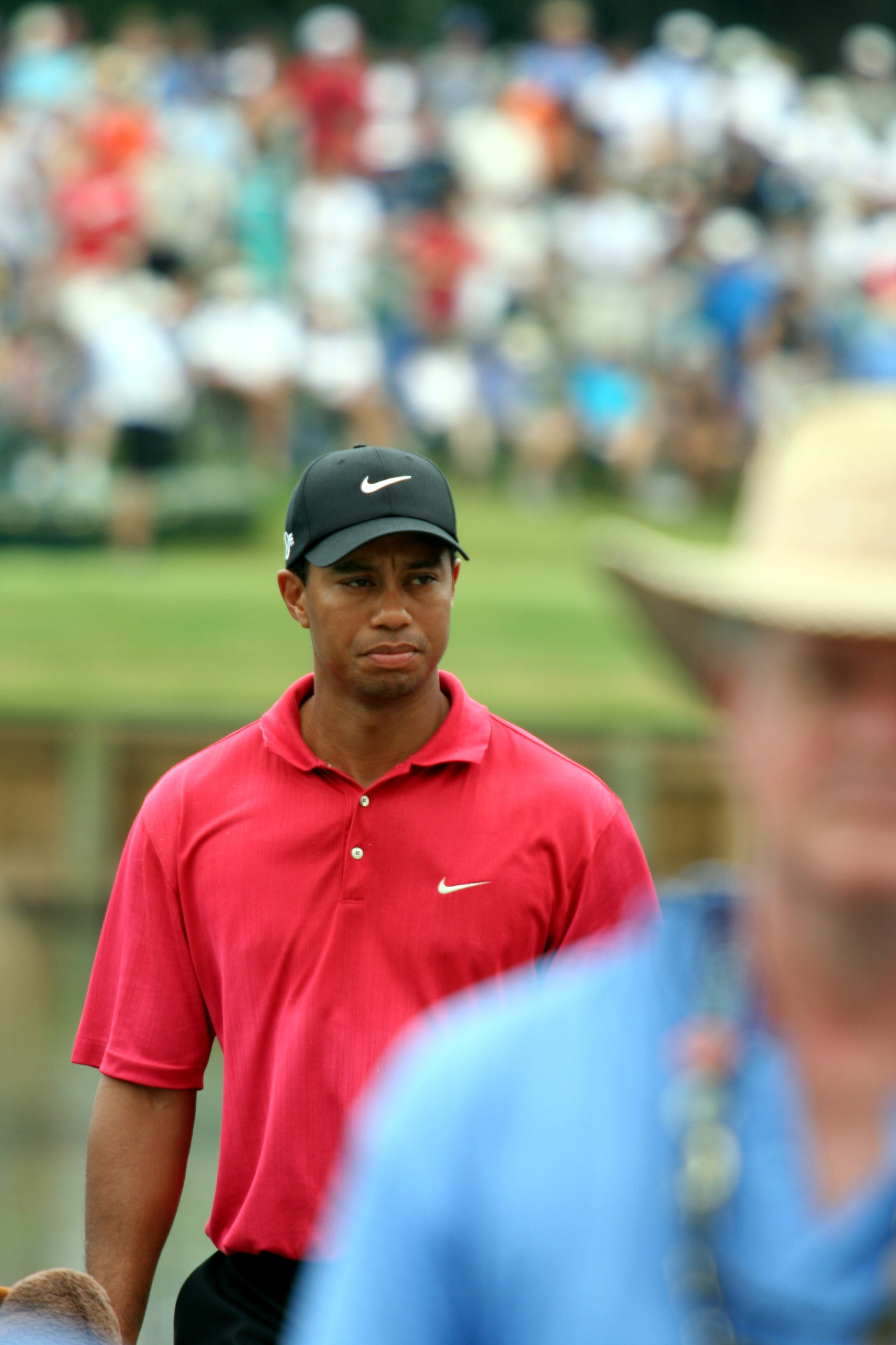 Tiger Woods near the 17th hole during The Players Championship in 2007.